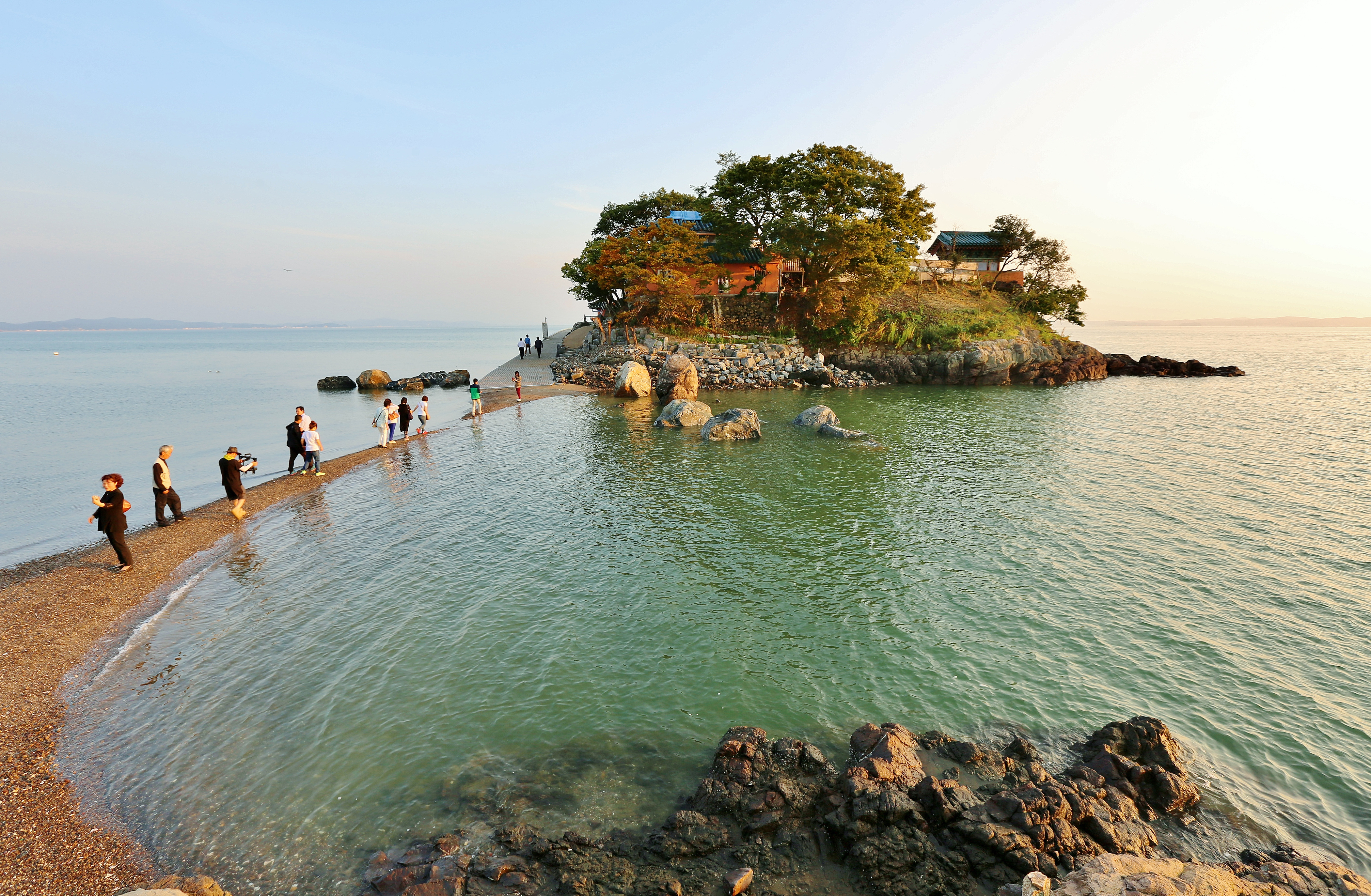 Ganworam Hermitage